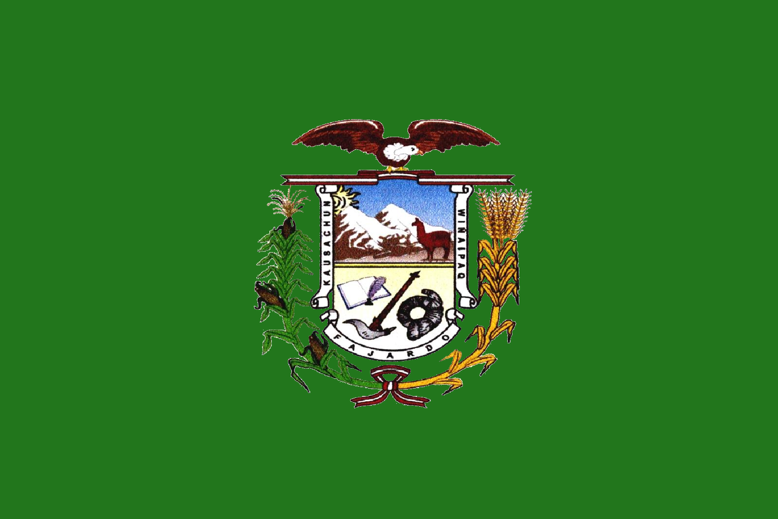 nuestra bandera fajardina